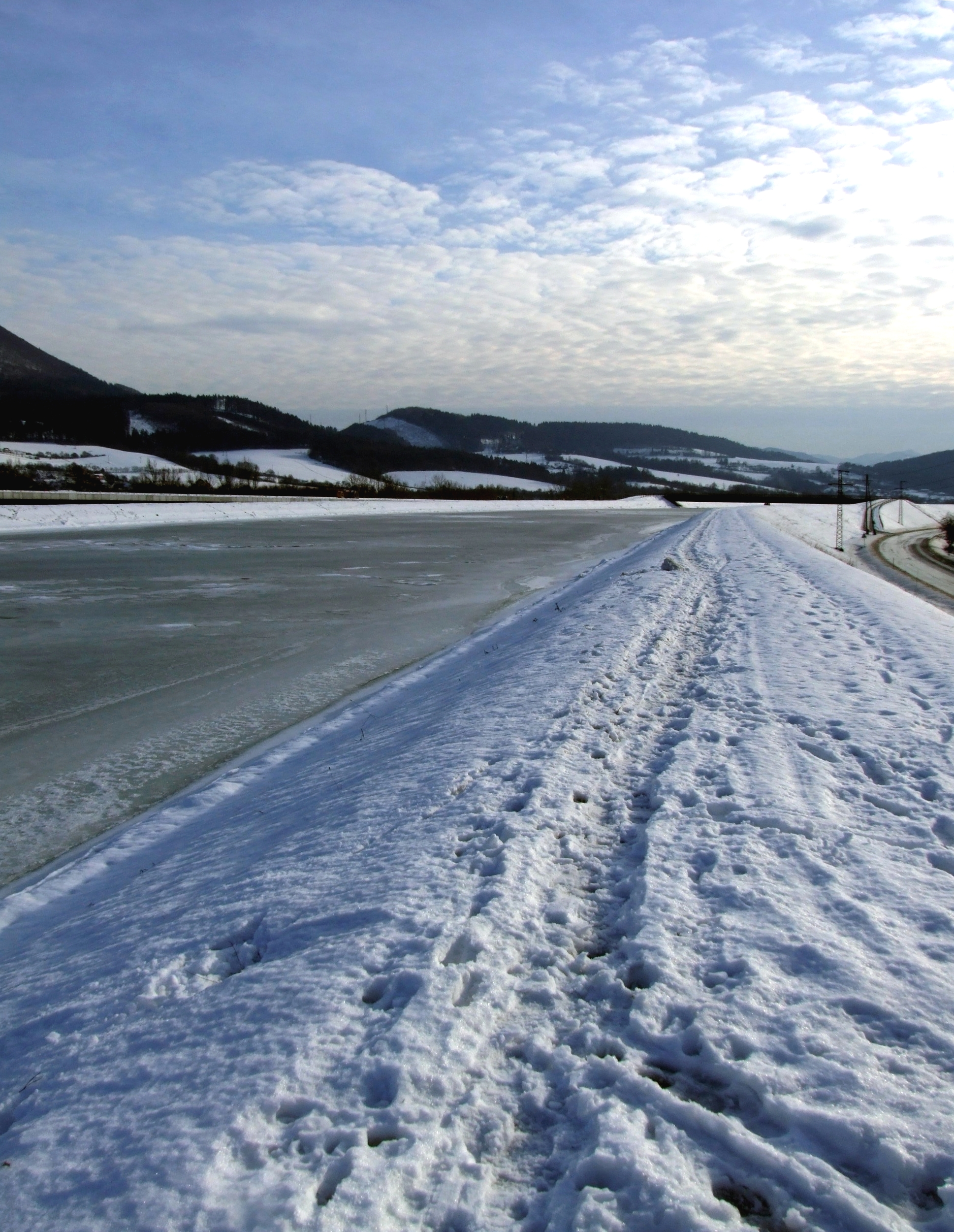 Canal Hričovský kanál in Považské Podhradie, Slovakia